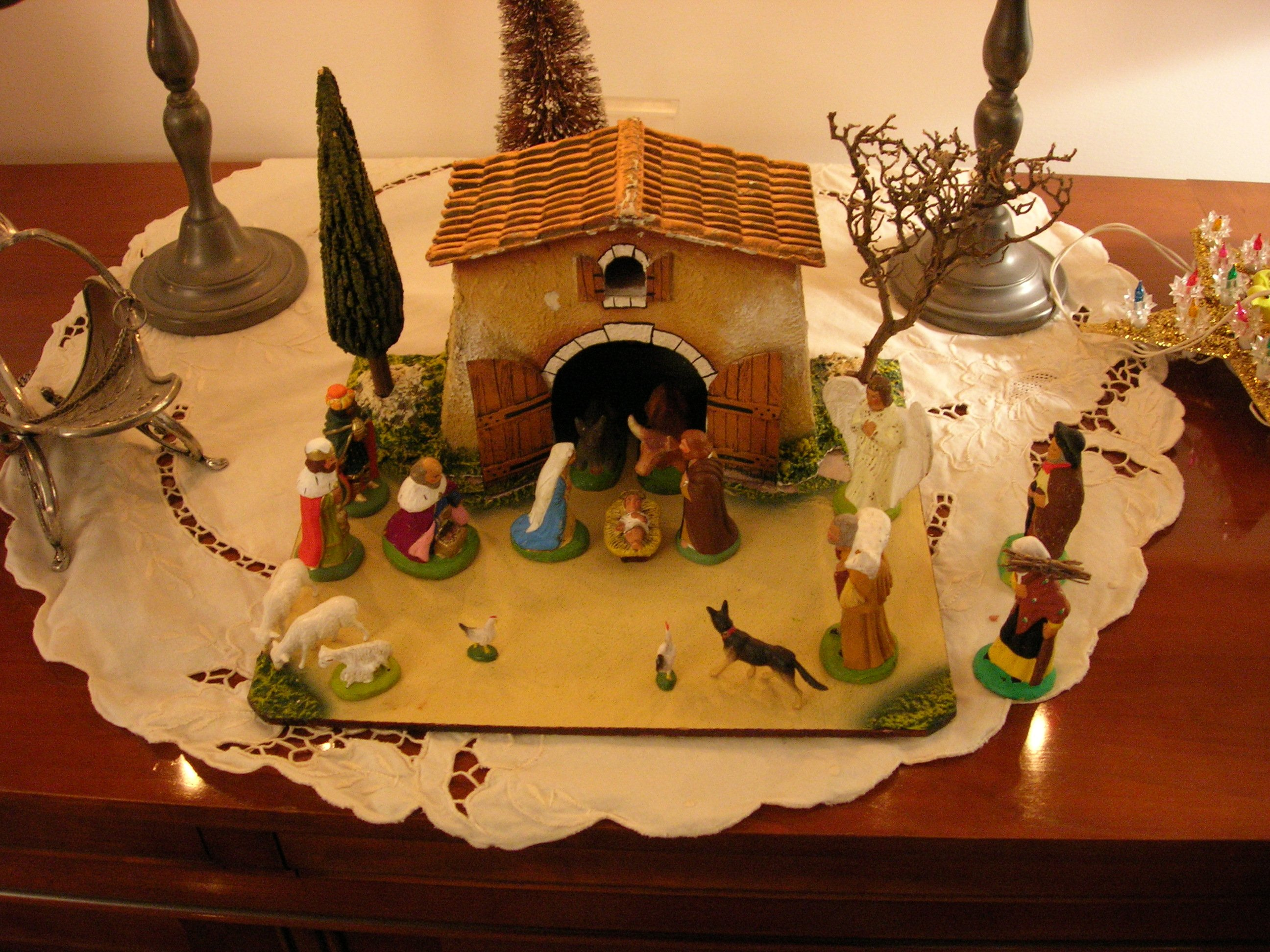 Nativity scene Origin : my work